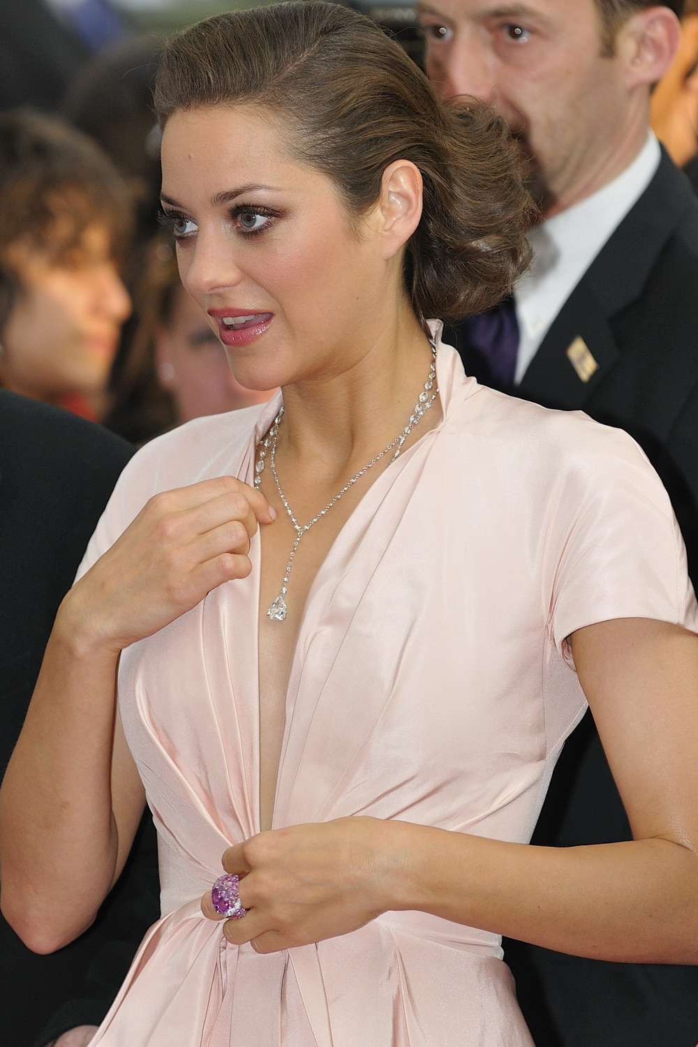 Marion Cotillard during the Paris premiere of Public Enemies at the cinema UGC Normandie